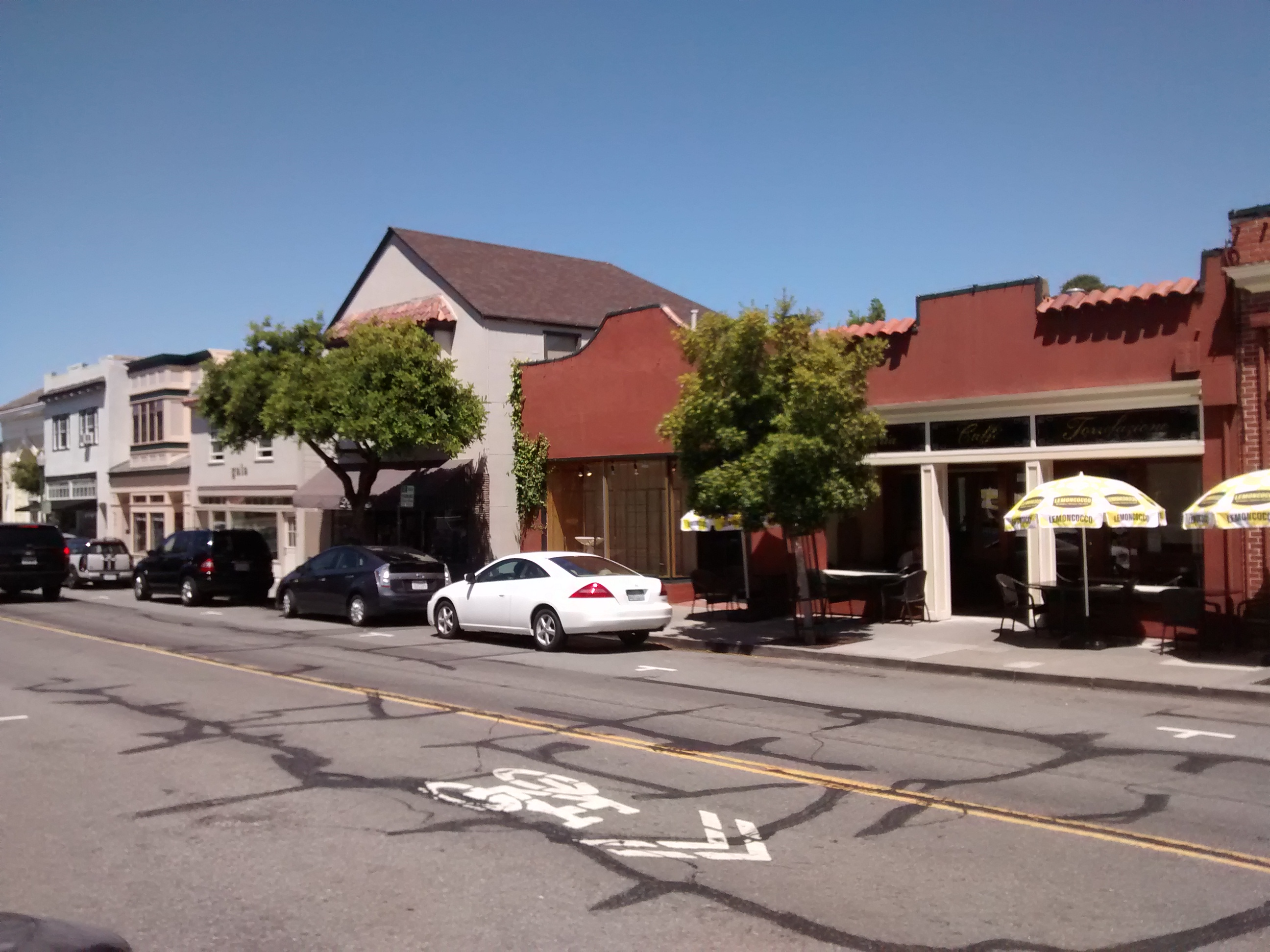 Larkspur Downtown Historic District.